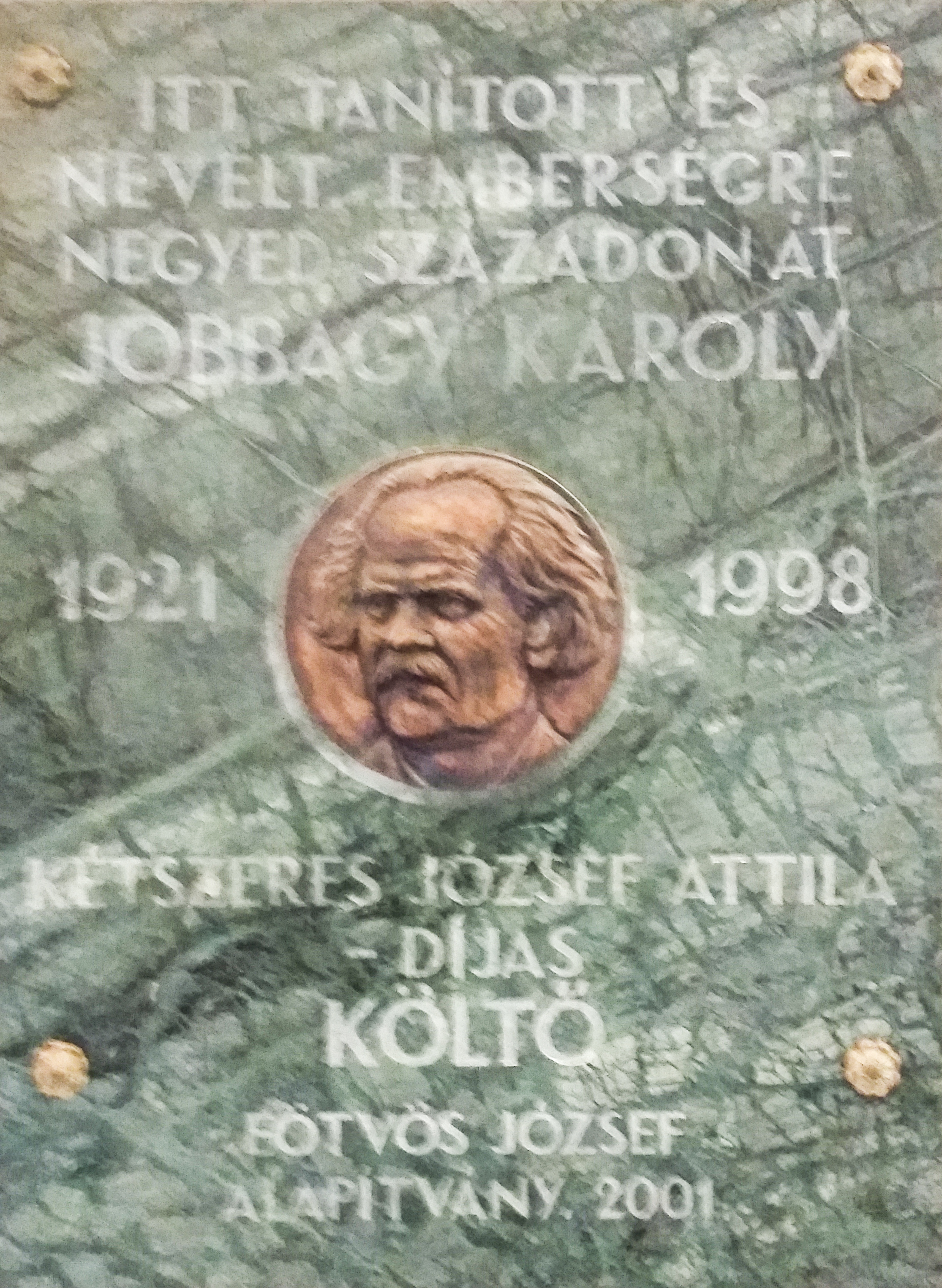 Comemmorative plaque to Károly Jobbágy in the Eötvös József Gimnázium (high school) in Budapest